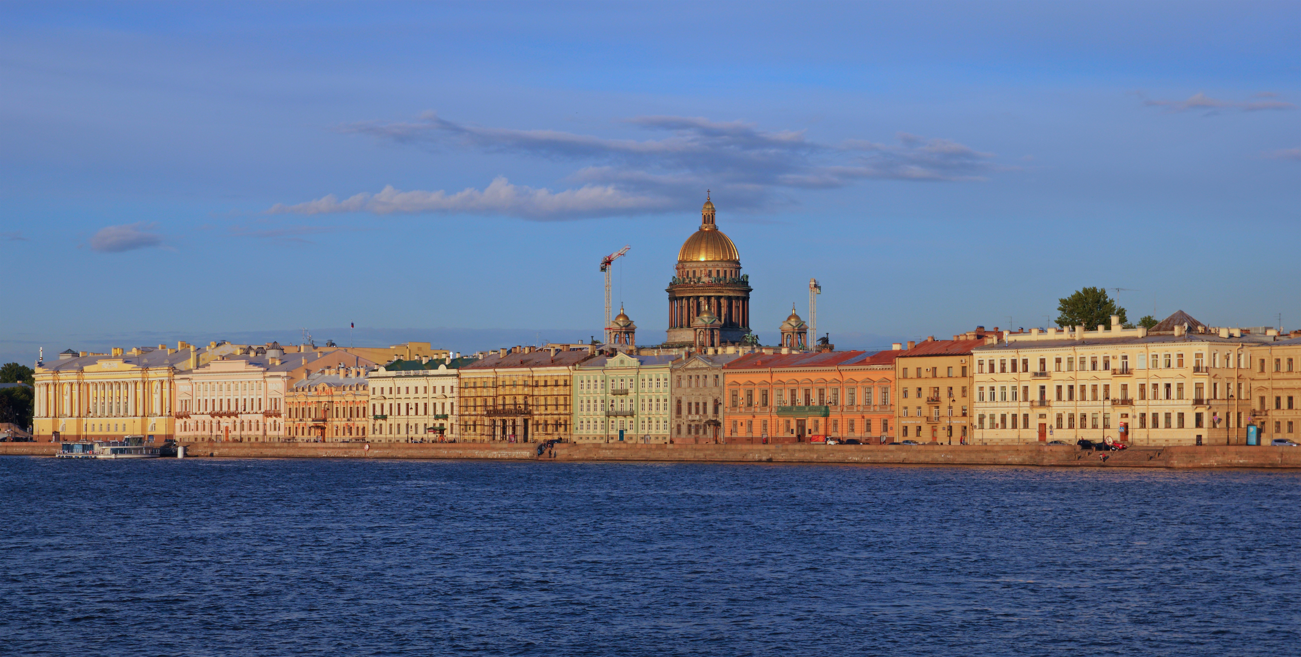 Saint Petersburg, Russia. View of English Embankment from the Annunciation Bridge.